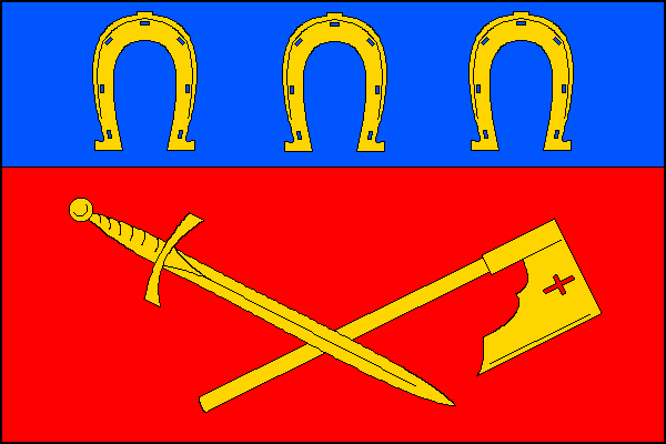 Municipal flag of Záhornice village, Nymburk District, Czech Republic.